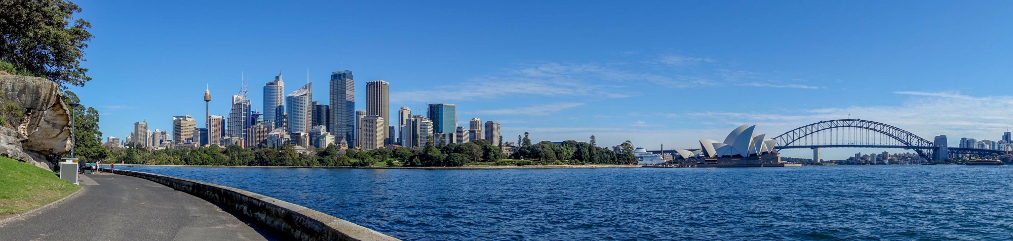 Sydney City Panorama